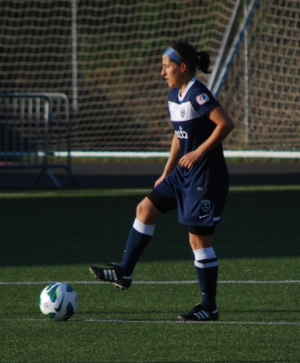 Seattle Reign FC midfielder Teresa Noyola during a match against Washington Spirit on May 16, 2013 at Starfire Stadium in Tukwila, Washington.